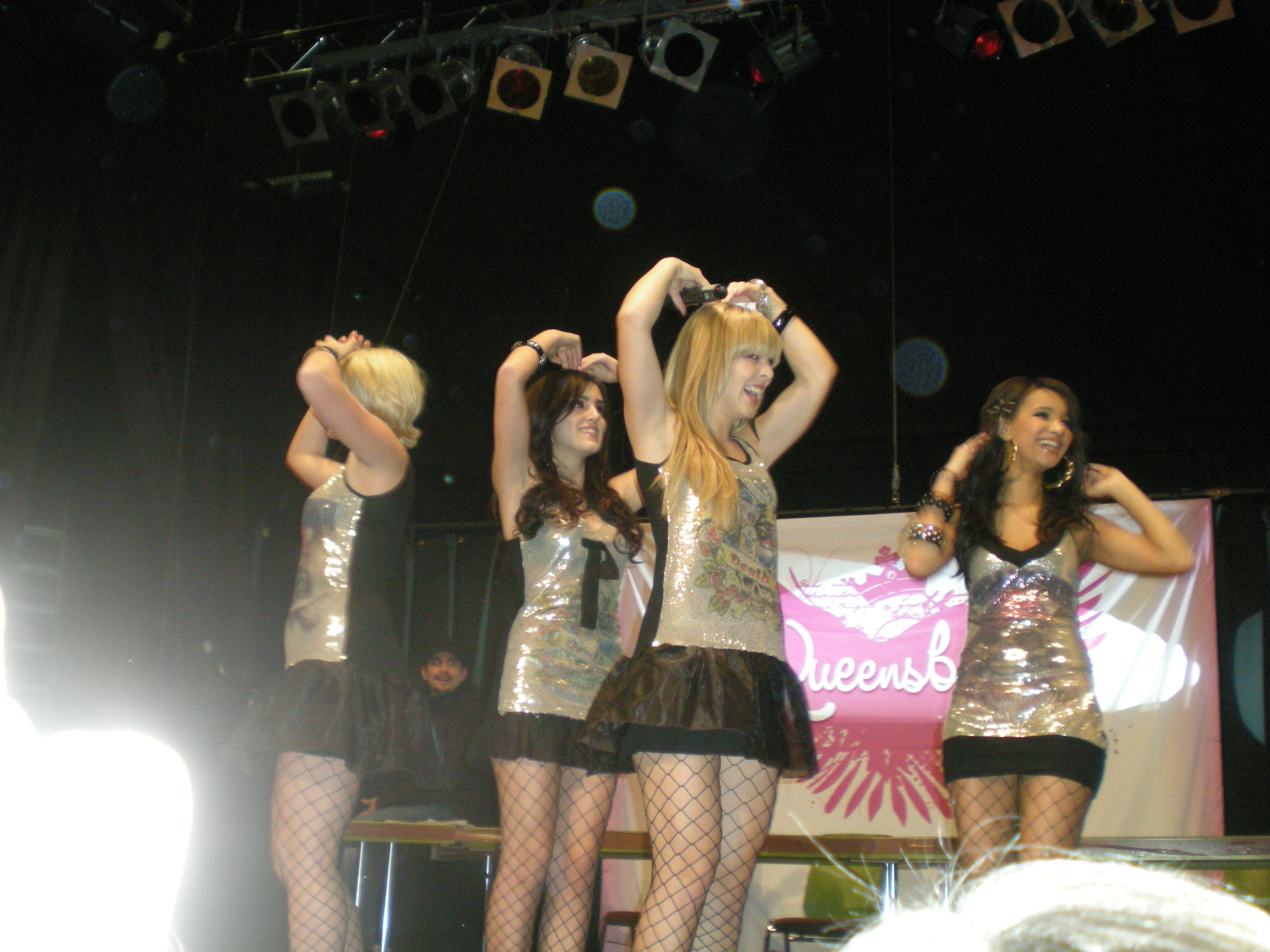 Queensberry at the first fanclub meeting